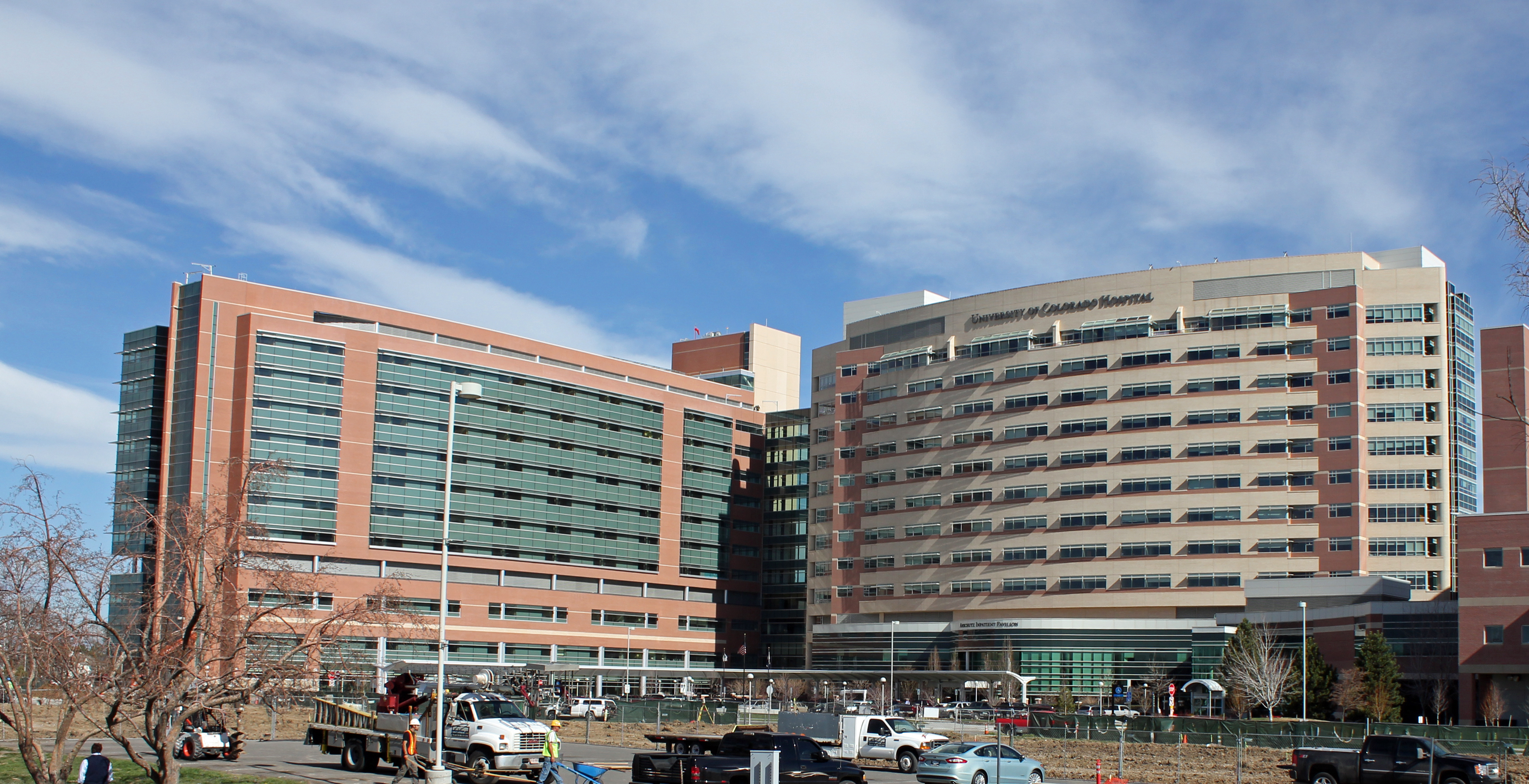 The University of Colorado Hospital, located at 12605 East 16th Avenue, in Aurora, Colorado. The photo shows the original building (built in 2004) on the right, and the new inpatient tower (left), opened in 2013.